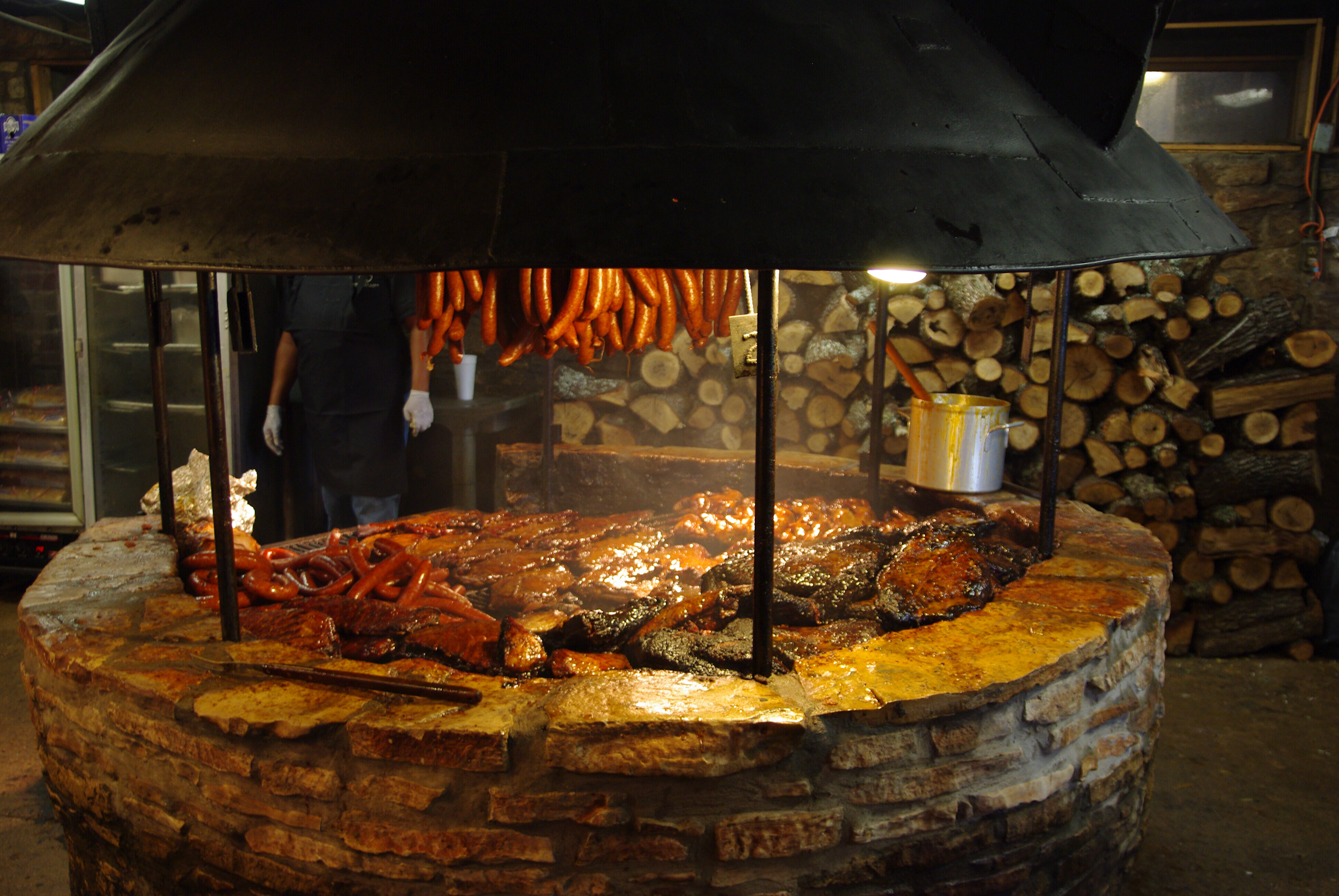 OK, so as I have gotten older I have actually tried to reduce my intake of meat, but this pile of goodness is the mother lode of temptation. The Salt Lick really does an awesome job with their barbecue.